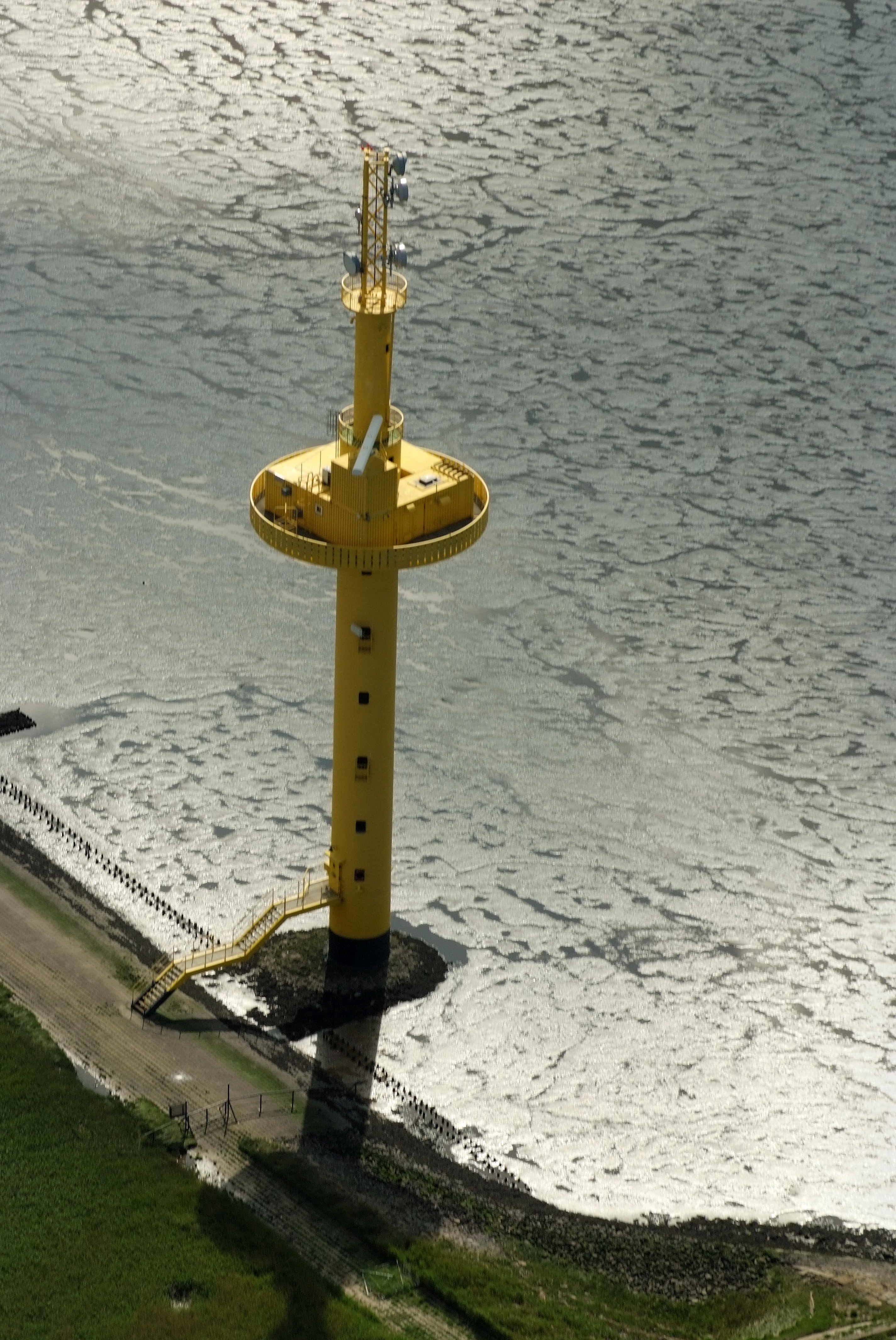 Radar tower on the North Sea island Langlütjen I at low tide